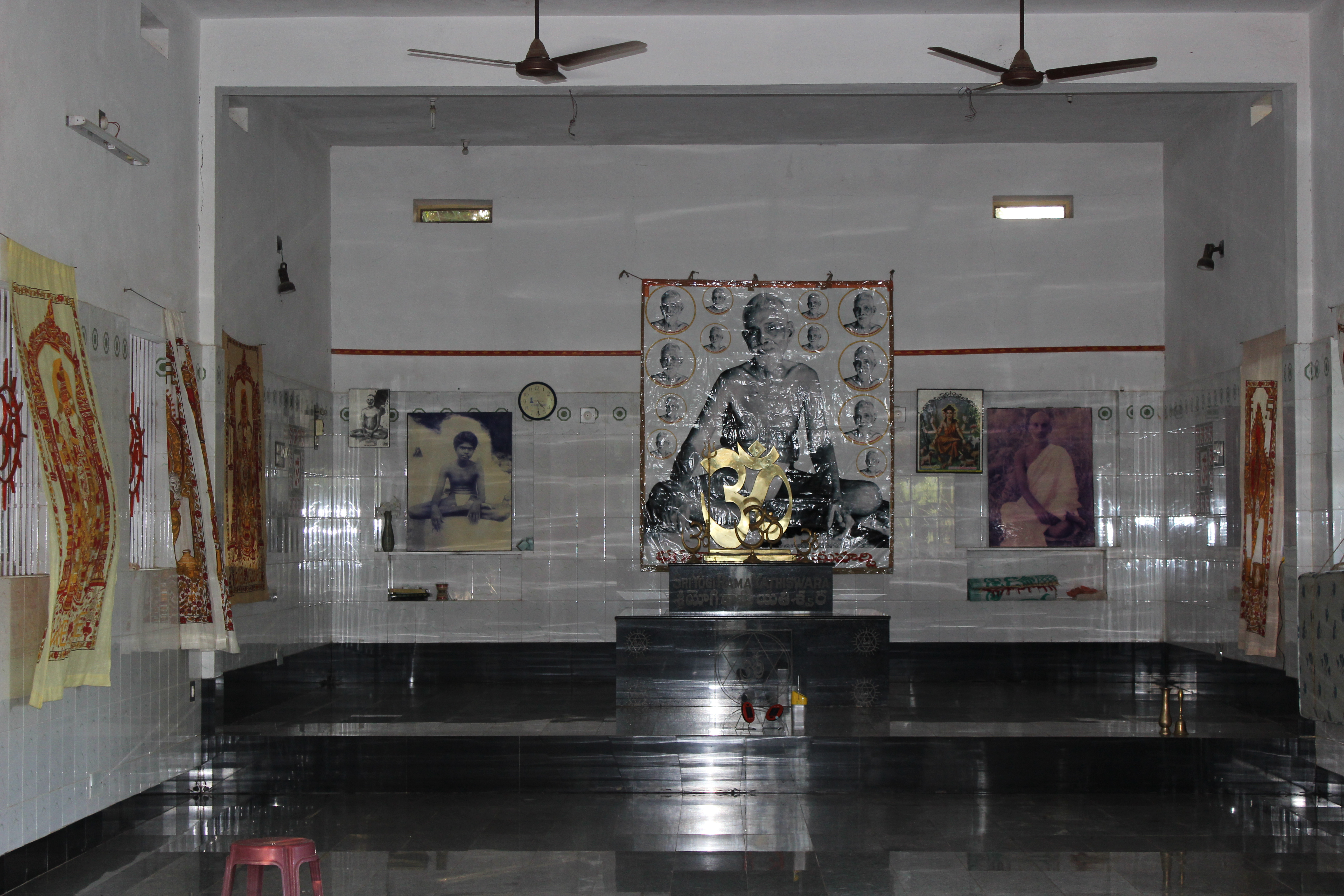 Yogi Ramaiah Asramam Samadhi, Anna Reddy Palem, Nellore Dist